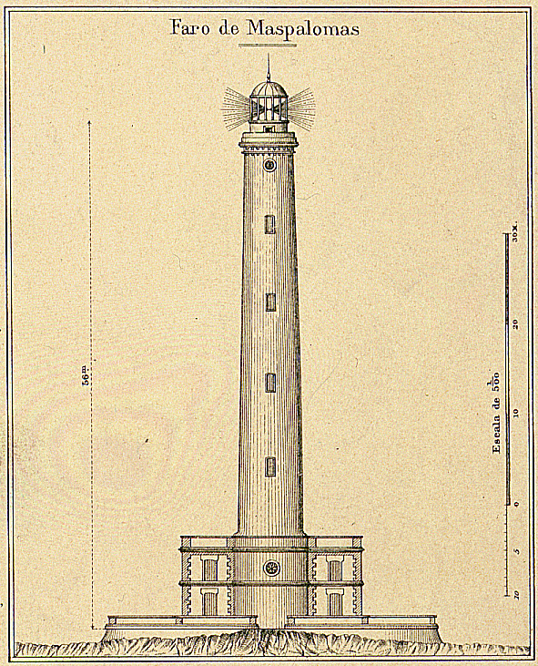 Maspalomas Lighthouse, in Maspalomas, Gran Canaria (Canary Islands, Spain). Line Art of 1895.